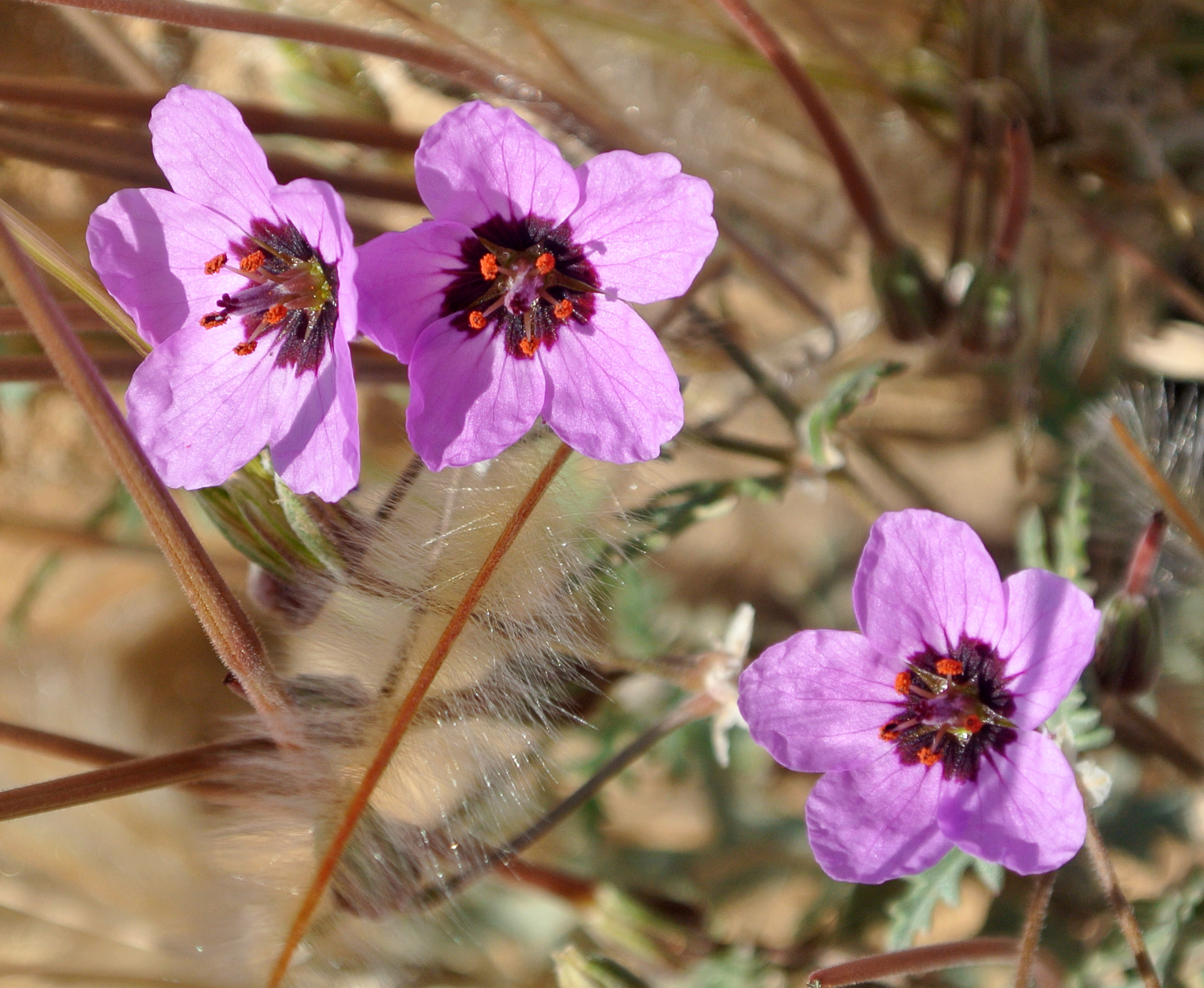 Erodium cicutarium from Har Arif, Negev, southern Israel. Identification is challenged: see File talk:Erodium cicutarium Negev.JPG.